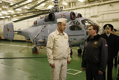 BARENTS SEA. On board the Aircraft Carrier Admiral Kuznetsov.